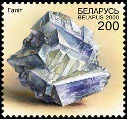 Stamp of Belarus